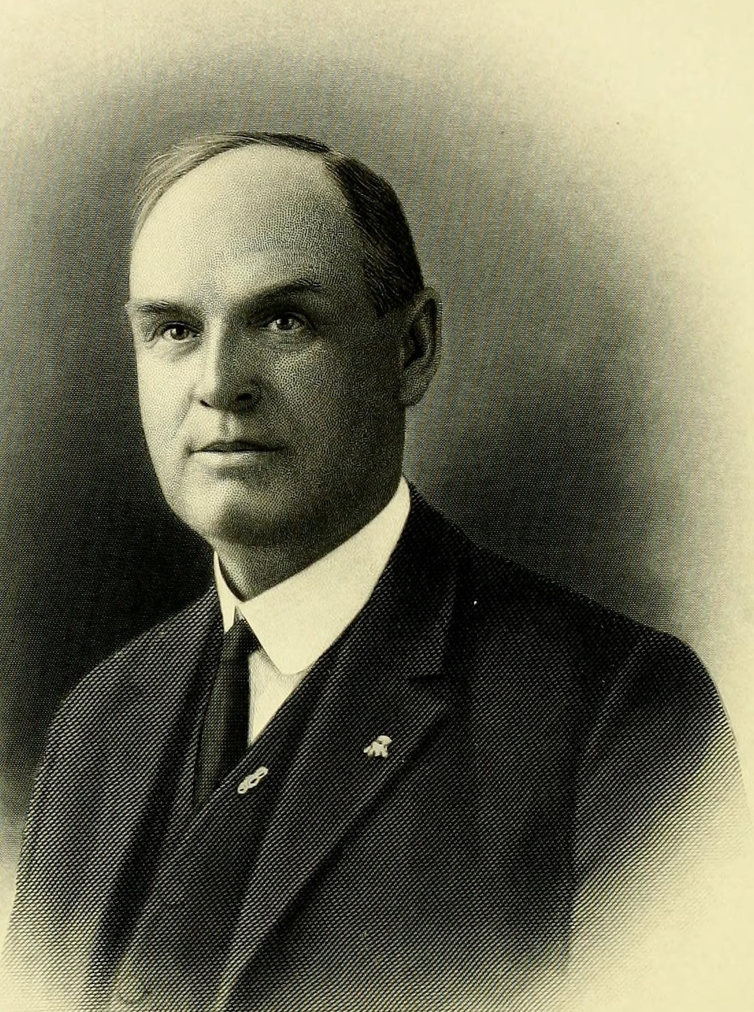 Charles A. Barlow, California Congressman.